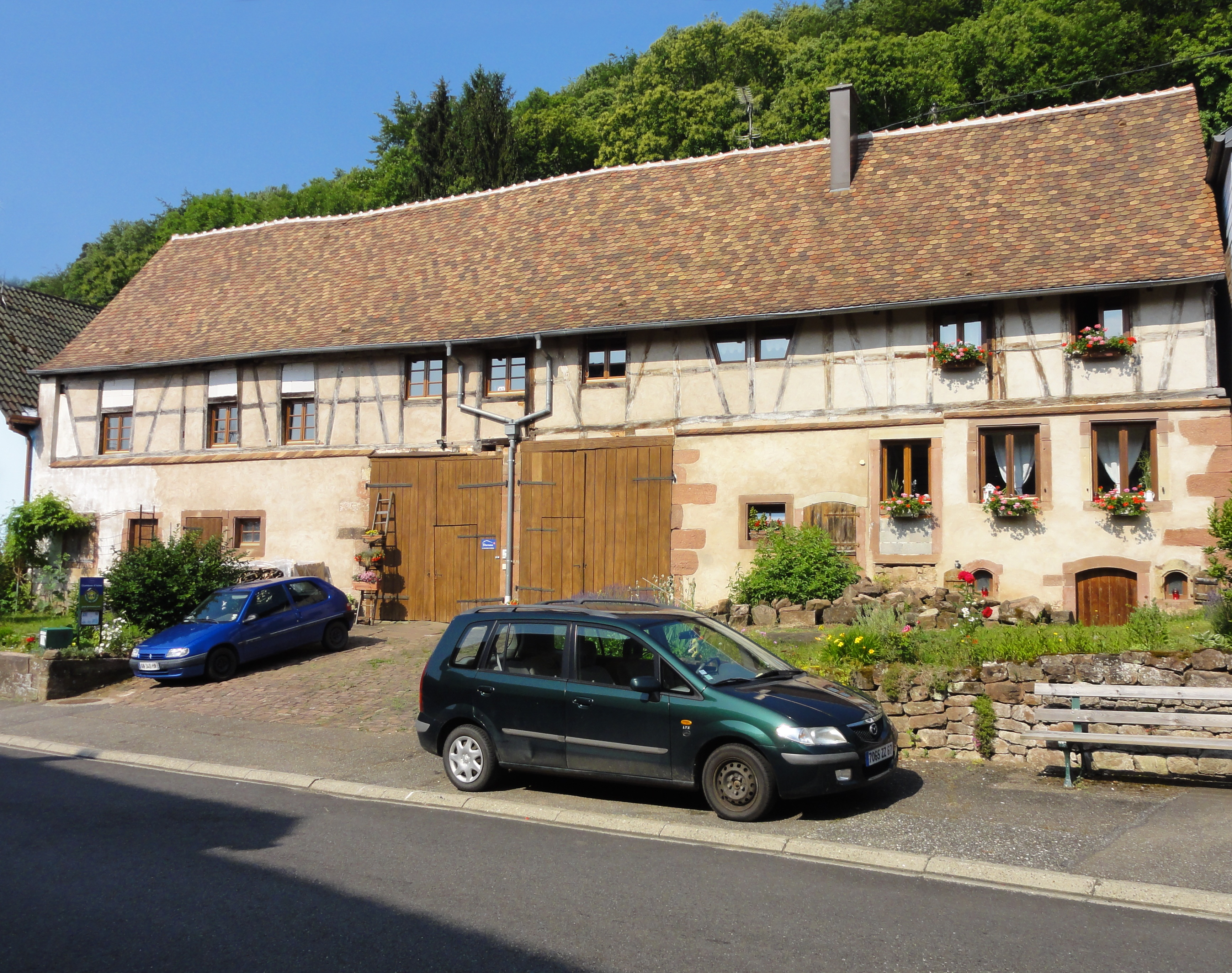 Alsace, Bas-Rhin, Reinhardsmunster, Ancienne ferme, 33 rue Principale.